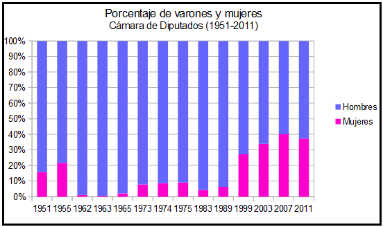 Porcentaje de hombres y mujeres en la Cámara de Diputados de la Nación Argentina entre 1951 y 2011. Fuente: Toppi, Hernán Pablo (2016). «Políticas públicas y derechos políticos: Del voto femenino a las cuotas de género como respuestas a los problemas de representación política de las mujeres en la Argentina». Revista Perspectivas de Políticas Públicas (Enero-Junio 2016) 7 (10): 87-120. ISSN 1853-9254.